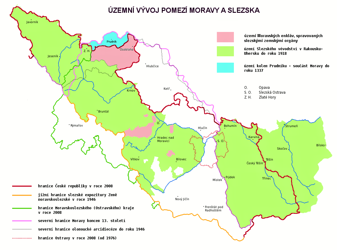 Map showing the historical development of border between Moravia and Silesia, borders of the Silesian subdivision (Slezská expozitura) within the Moravian-Silesian Land (Země Moravskoslezská) of Czechoslovakia, borders of the Moravian-Silesian Region of the Czech Republic, borders of the Duchy of Silesia of Austria-Hungary and borders of the City of Ostrava. Red line shows the border of the Czech Republic in 2008. Yellow line shows the southern border of the Silesian subdivision within the Moravian-Silesian Land of Czechoslovakia. Green line shows the border of the Moravian-Silesian Region (Moravskoslezský kraj) of the Czech Republic. Pink line shows the northern border of Moravia at the end of the 13th century. Grey line shows the northern border of the Olomouc Archdiocese. Dotted line shows the border of the City of Ostrava in 2008. The area in green shows the former Duchy of Silesia (the Austrian Silesia). The area in blue shows land around Prudnik, which was a part of Moravia until 1337. The descriptions are in Czech.